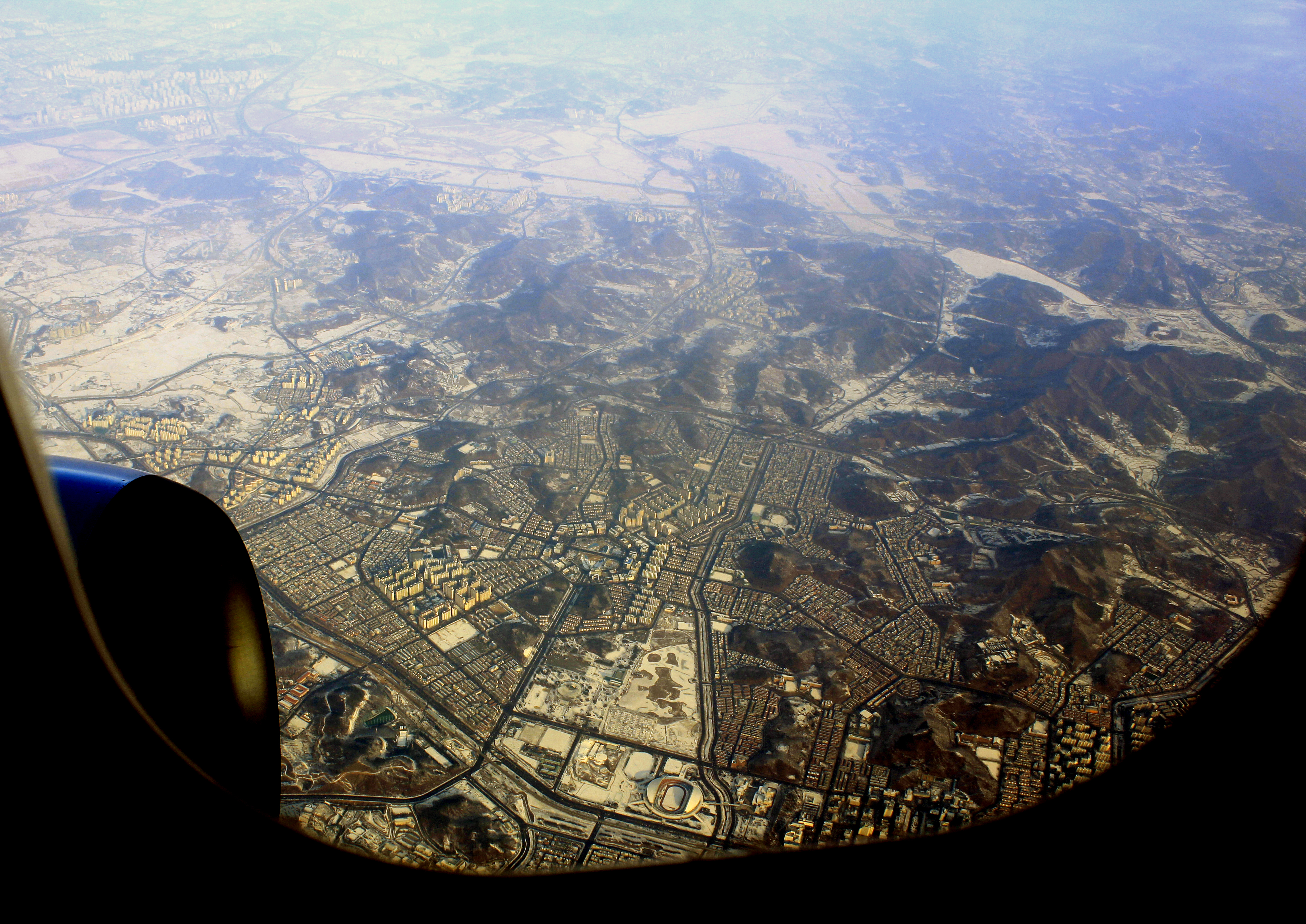 From Flight MM010